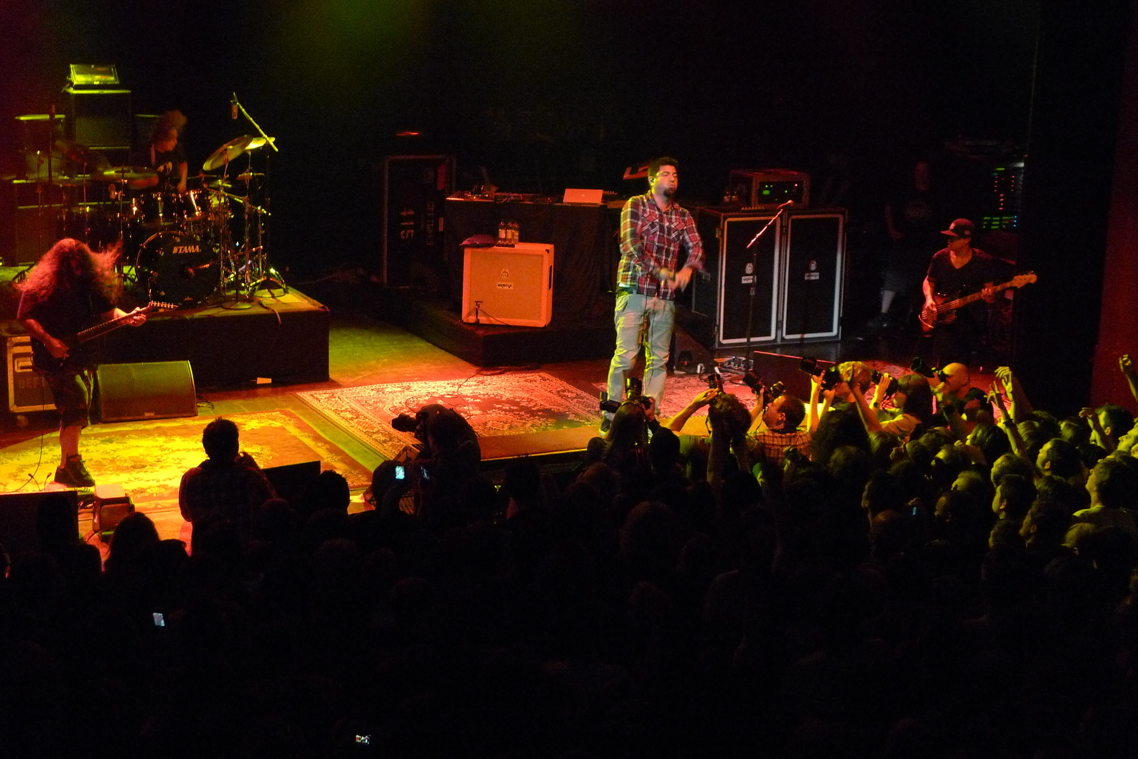 Deftones performing at the Shepherd's Bush Empire in London, UK on 24 August 2011.